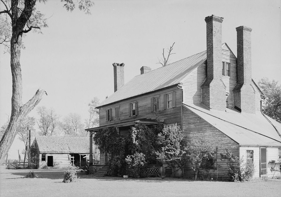 Effingham, State Route 646 vicinity, Aden vicinity (Prince William Count, Virginia) cropped, HABS VA,76-AD.V,1-2 This file comes from the Historic American Buildings Survey (HABS), Historic American Engineering Record (HAER) or Historic American Landscapes Survey (HALS). These are programs of the National Park Service established for the purpose of documenting historic places. Records consist of measured drawings, archival photographs, and written reports. When reusing please credit: Library of Congress, Prints & Photographs Division, VA-575 This tag does not indicate the copyright status of the attached work. A normal copyright tag is still required. See Commons:Licensing for more information. This work is in the public domain in the United States because it is a work prepared by an officer or employee of the United States Government as part of that person’s official duties under the terms of Title 17, Chapter 1, Section 105 of the US Code. See Copyright. Note: This only applies to original works of the Federal Government and not to the work of any individual U.S. state, territory, commonwealth, county, municipality, or any other subdivision. This template also does not apply to postage stamp designs published by the United States Postal Service since 1978. (See § 313.6(C)(1) of Compendium of U.S. Copyright Office Practices). It also does not apply to certain US coins; see The US Mint Terms of Use. This file has been identified as being free of known restrictions under copyright law, including all related and neighboring rights.